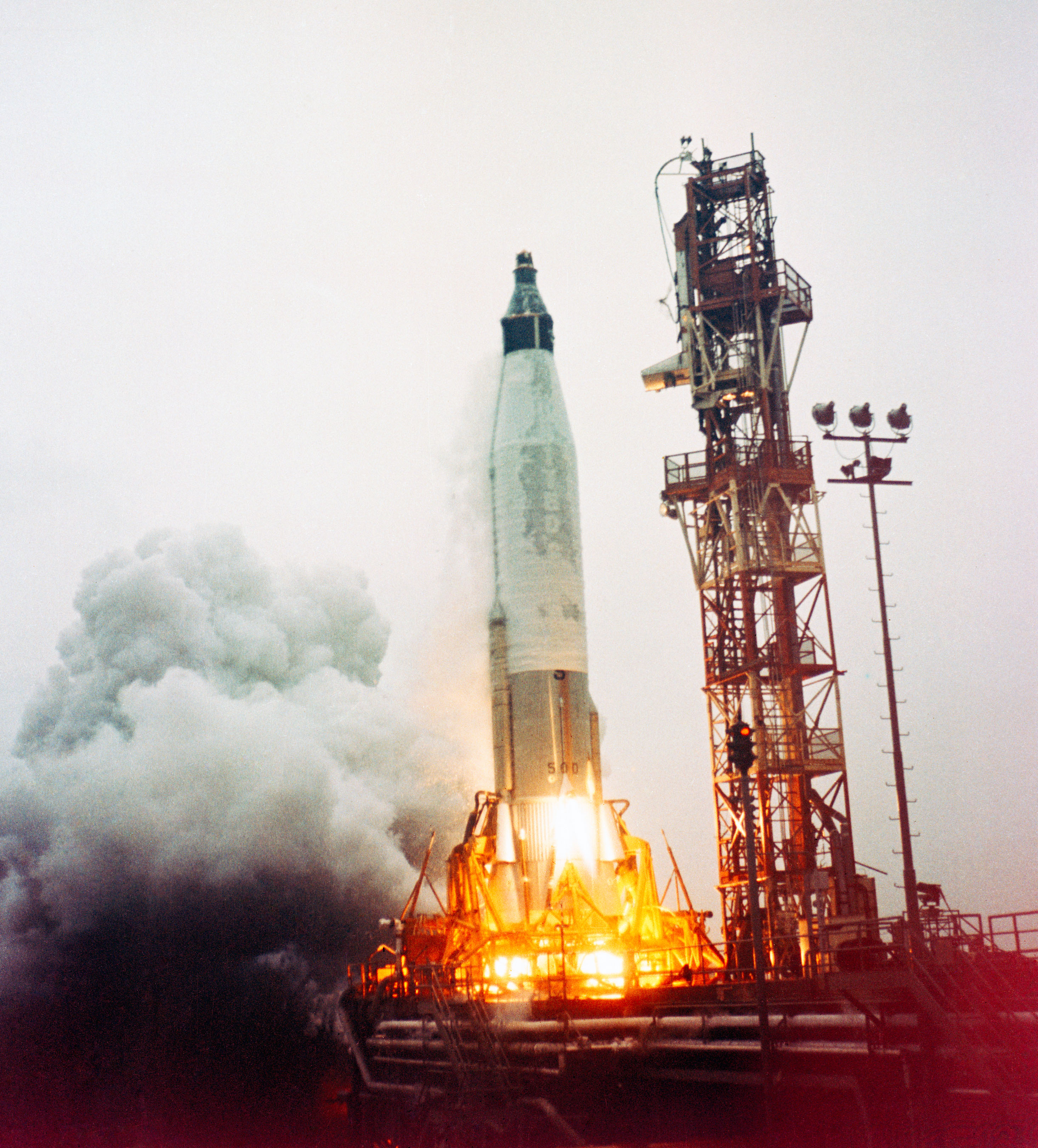 Launch of the unmanned Mercury Atlas-1 (MA-1) spacecraft for a suborbital test flight of the Mercury capsule reentry, which did not achieve orbit. The Atlas exploded 65 seconds after launch.